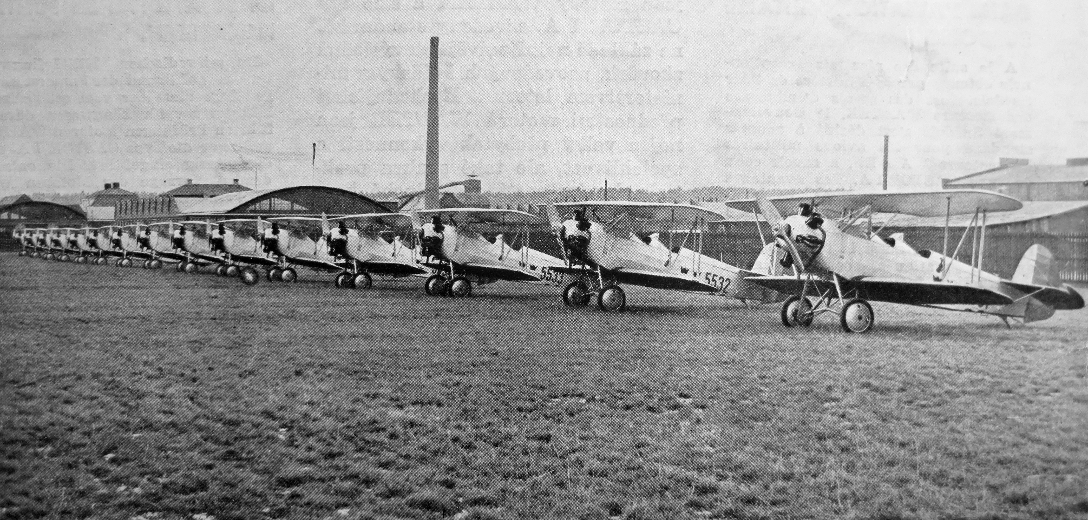 Aircraft engine Walter Castor and ASJA SK 10 Training Flight Squadron (1932)